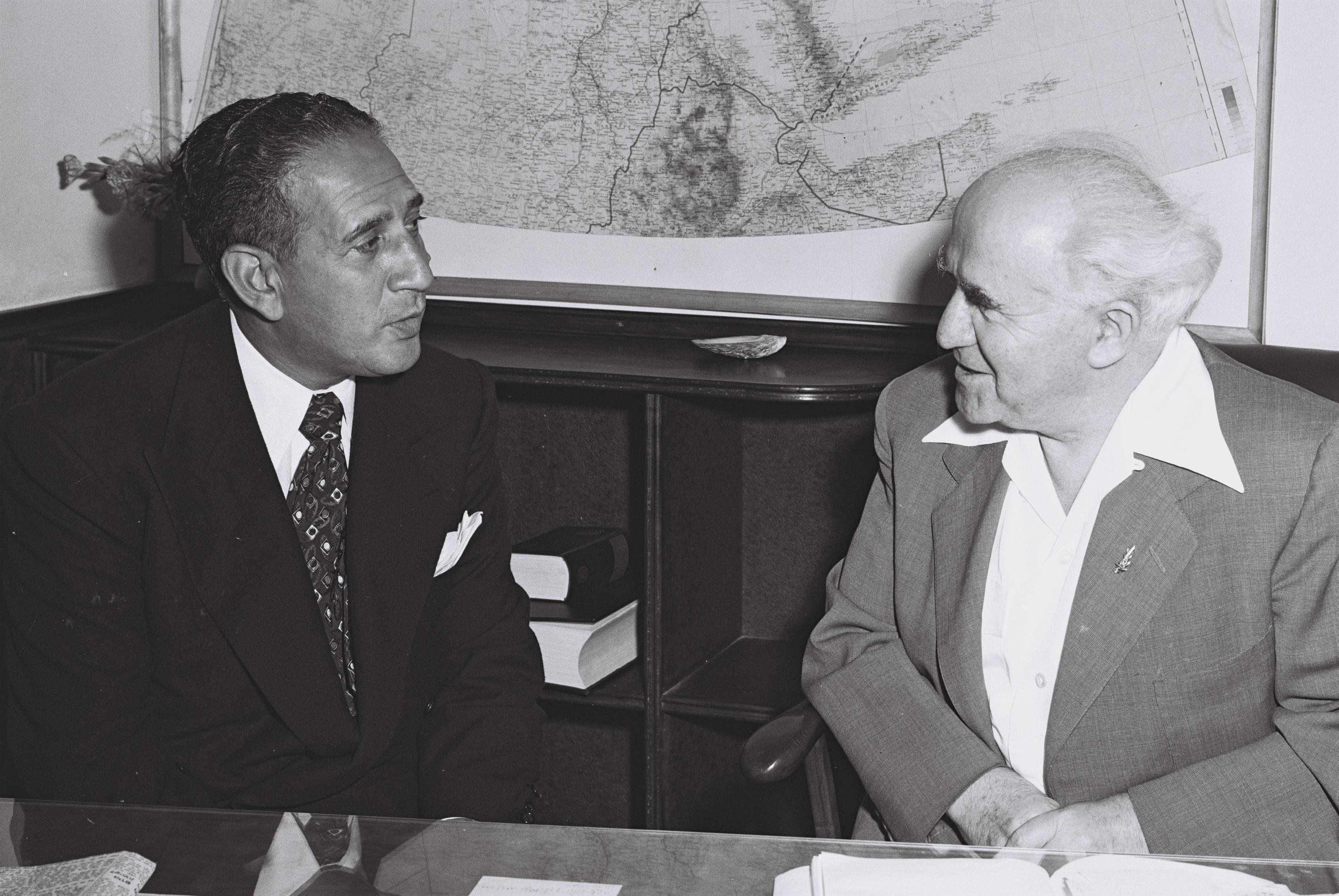 New York City mayor Vincent R. Impellitteri with Israeli Prime Minister David Ben-Gurion in Jerusalem, 1951